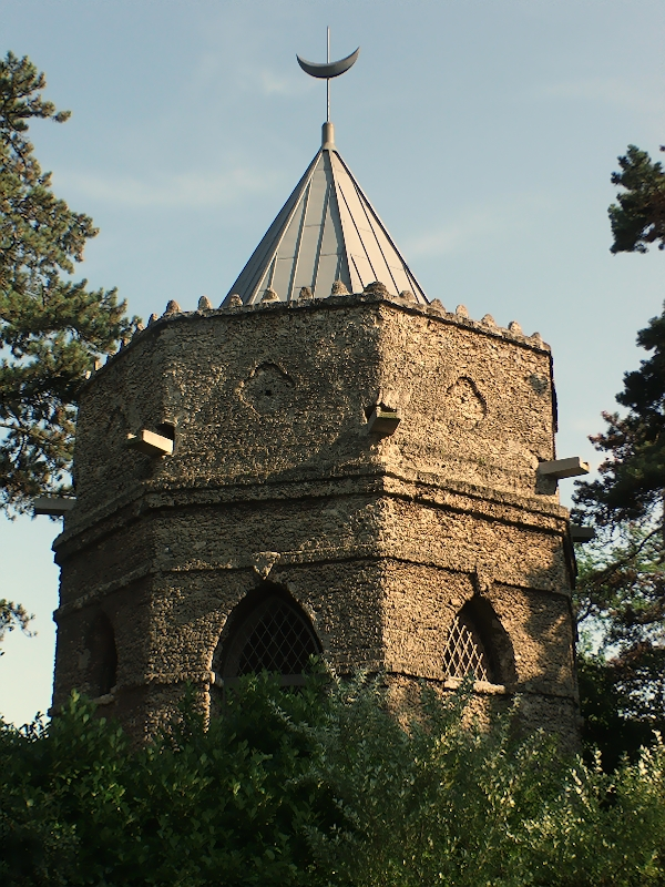 Turkish mosque in English garden, Tata city.